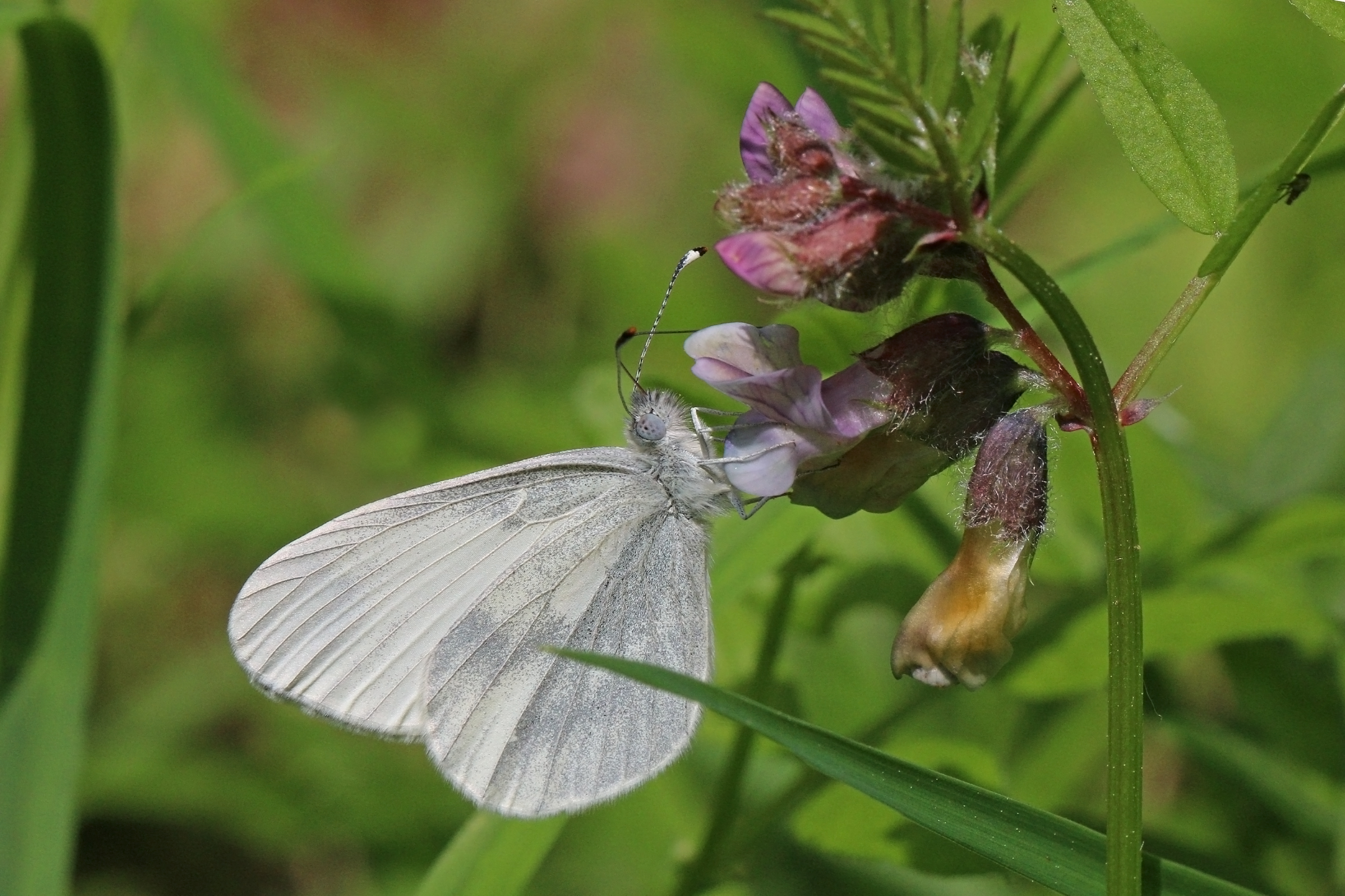 Wood white (Leptidea sinapis) female, Bucknell Wood, Silverstone, Northamptonshire